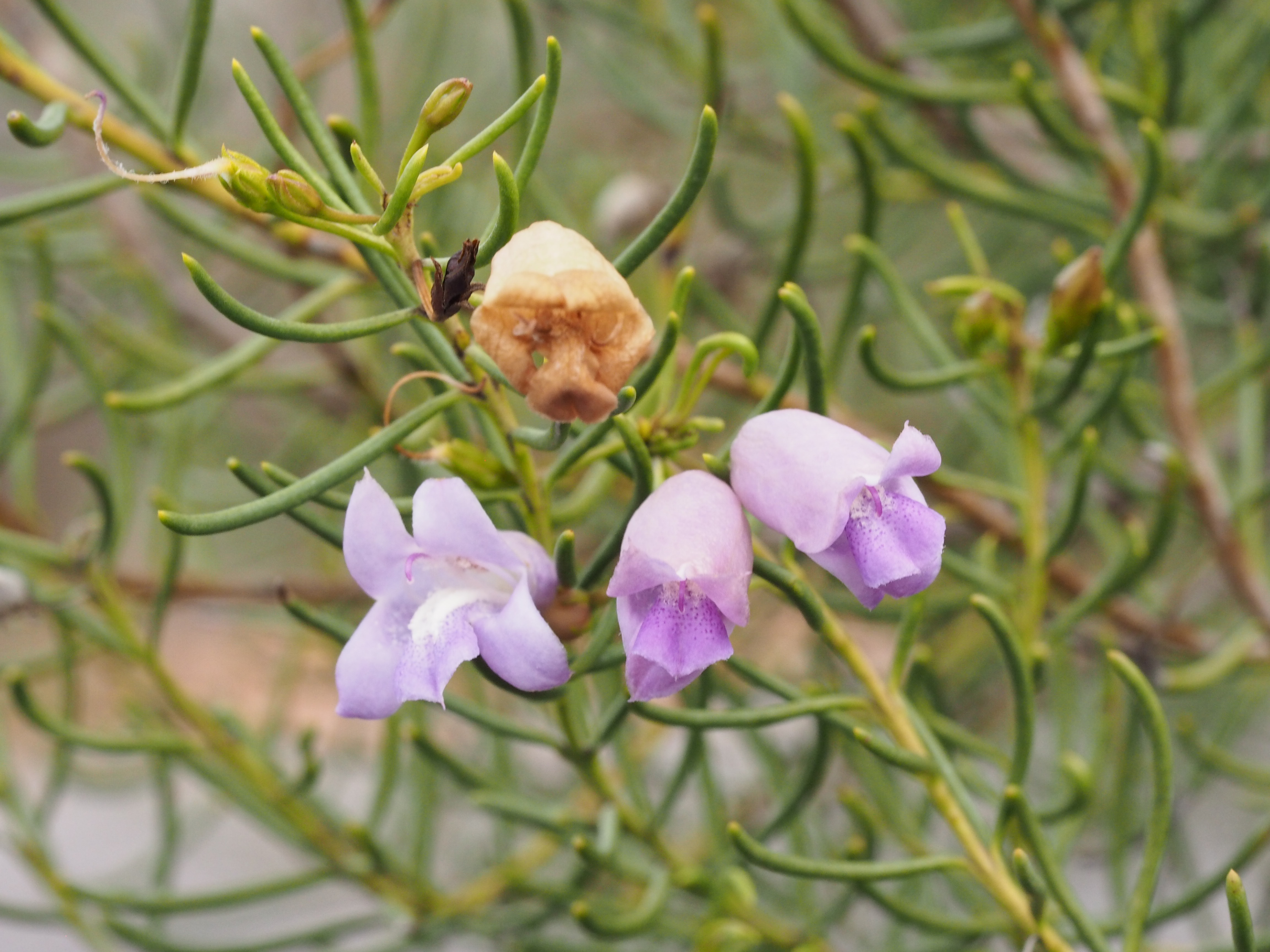 Eremophila rugosa growing near Bonnie Vale railway siding